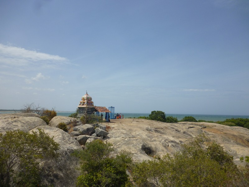 Thre are two rocks in Ukantha malai - Valli Amman Kovil is in the top of Vallimalai whereas Velsami Kovil is in the top of Swamimalai